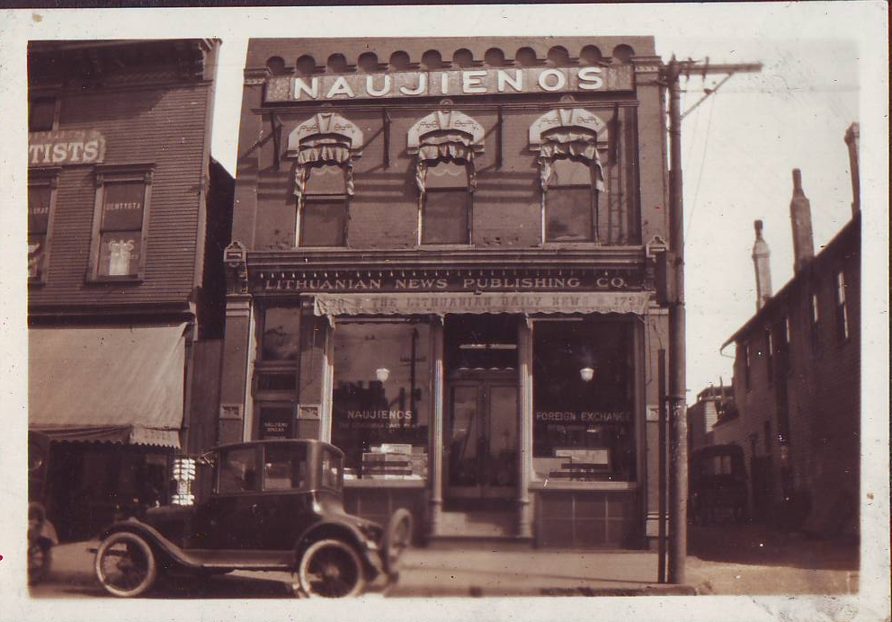 This is from a family album collected by my paternal grandmother.